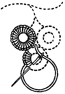 Buttonhole stitch, from Samplers and Stitches, a handbook of the embroiderer's art by Mrs Archibald Christie, London 1920/New York, 1921